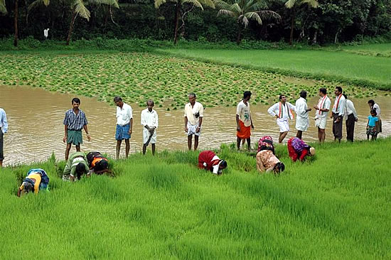 A photograph of paddy cultivation from Mangaluru, Thulunadu, India